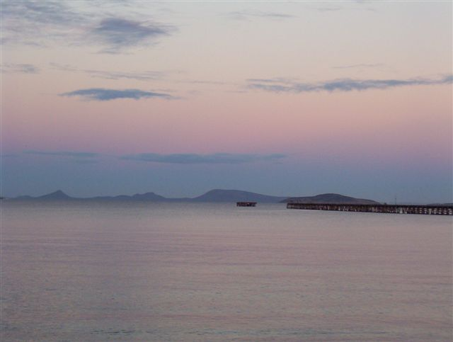 Esperance Bay featuring the Tanker Jetty